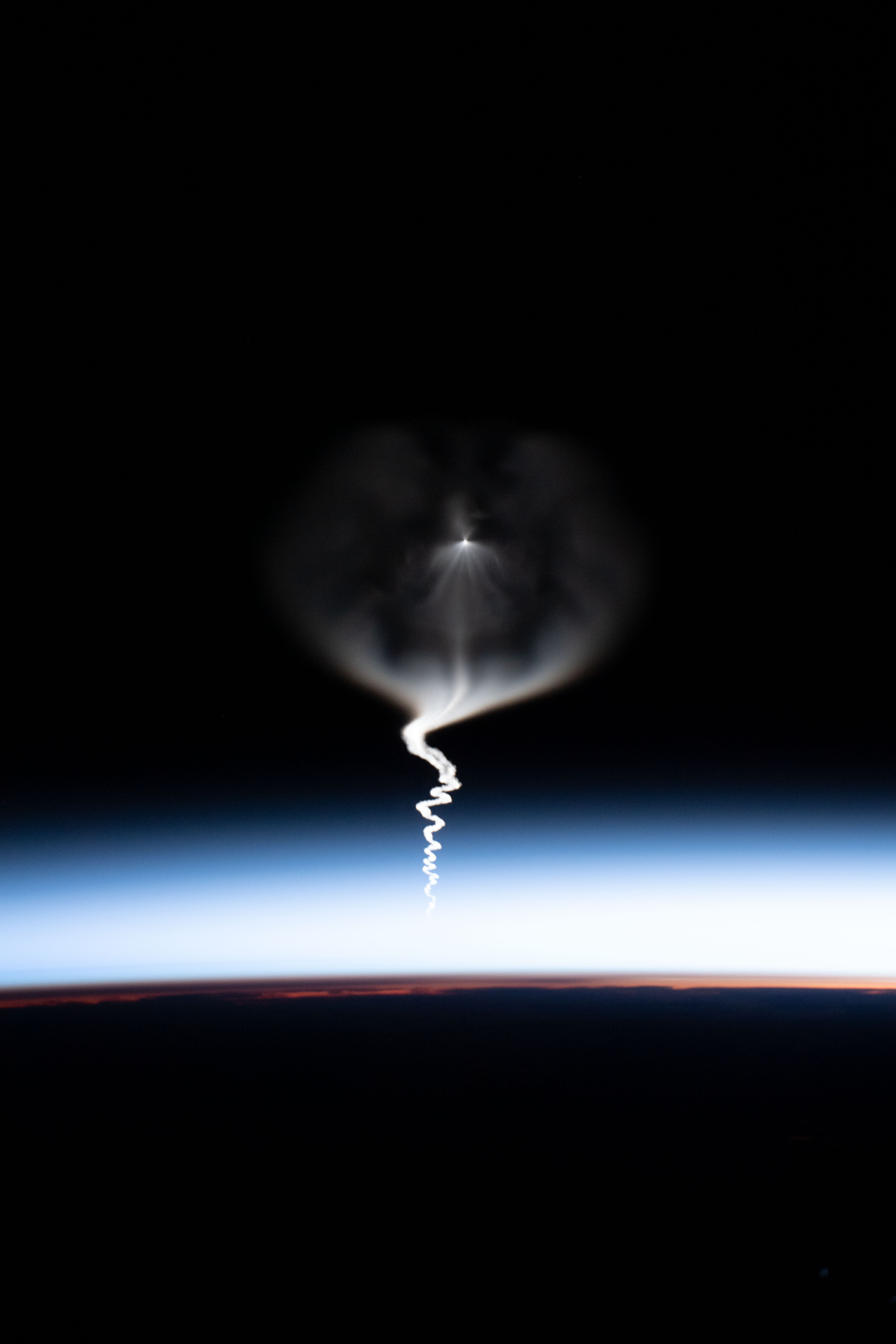 Expedition 60 Flight Engineer Christina Koch photographed the Soyuz MS-15 crew ship ascending into space after its launch from Kazakhstan. The Soyuz would dock a few hours later to the International Space Station with NASA astronaut Jessica Meir, Roscosmos cosmonaut Oleg Skripochka and spaceflight participant Hazzaa Ali Almansoori of the United Arab Emirates.